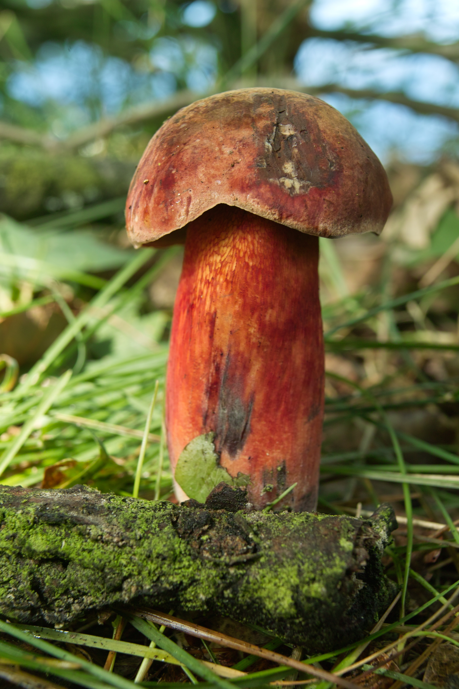 Boletus mendax, Vrbenské rybníky, Czech Republic